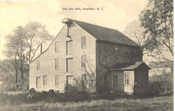 Postcard: Old Mill, Chatham, New Jersey, 1911 postmark. Description: "Notice the Hoist on top of the Mill for loading and unloading into wagons. This Postcard is a divided back and is postally used, dated 1911."